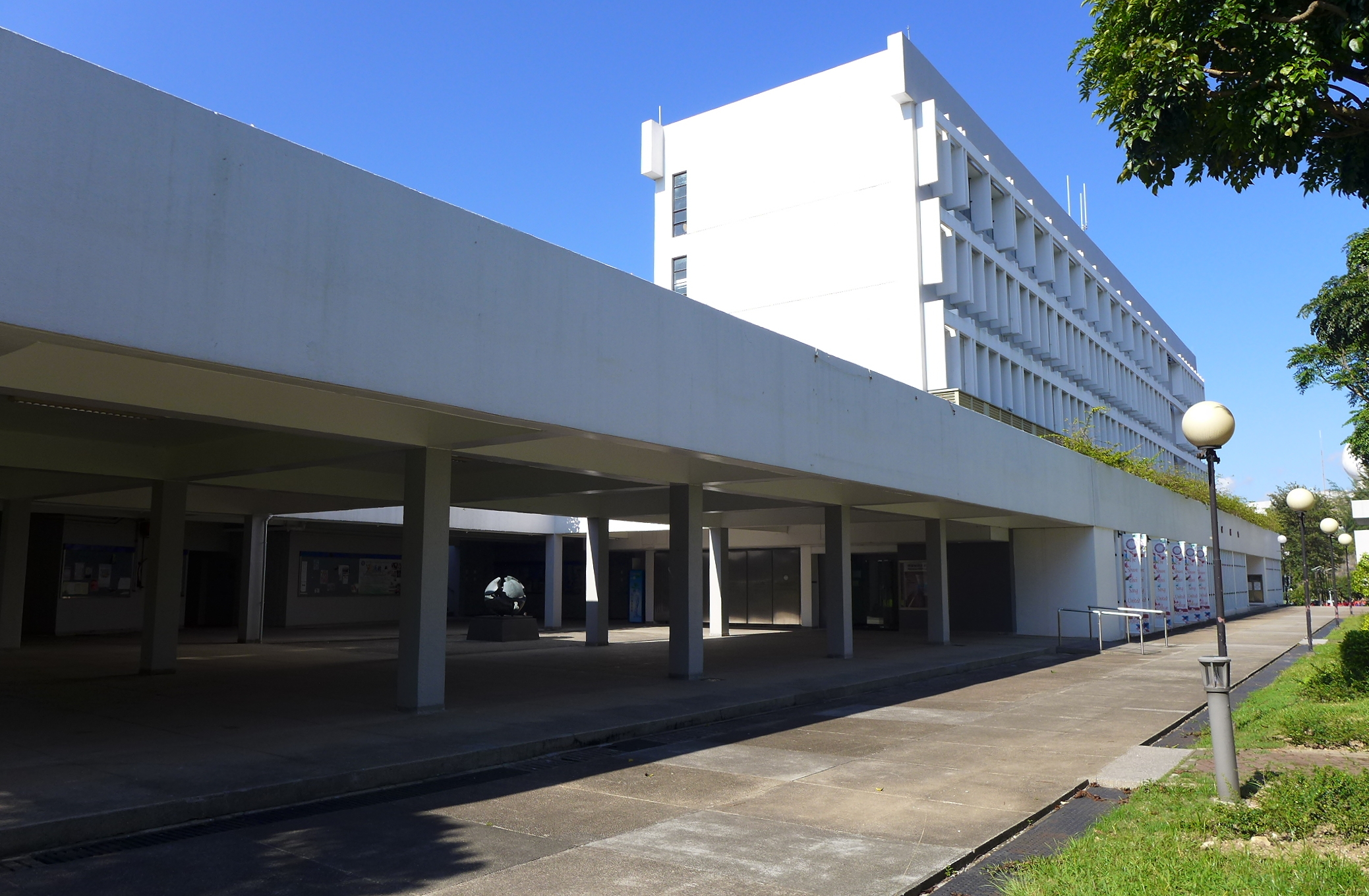 United College TC Cheng Building